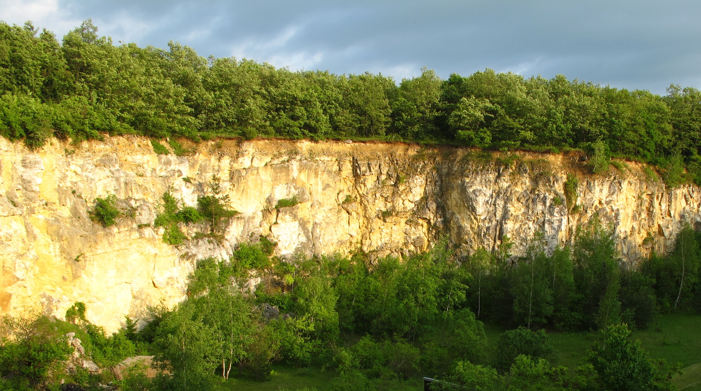 Abandoned quarry exposing Leithakalk (Leitha limestone, Badenian, Middle Miocene) near the village of Mannersdorf am Leithagebirge, viewing direction is east, southeastern margin of Vienna Basin, Lower Austria, lower slopes of the Leitha Mountains, Lower Austria.